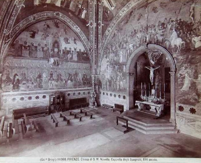 Carlo Brogi (1850-1925) - "Florence - Santa Maria Novella - Chapel of the Spaniards - 16th (sic) century". Catalogue # 16060.